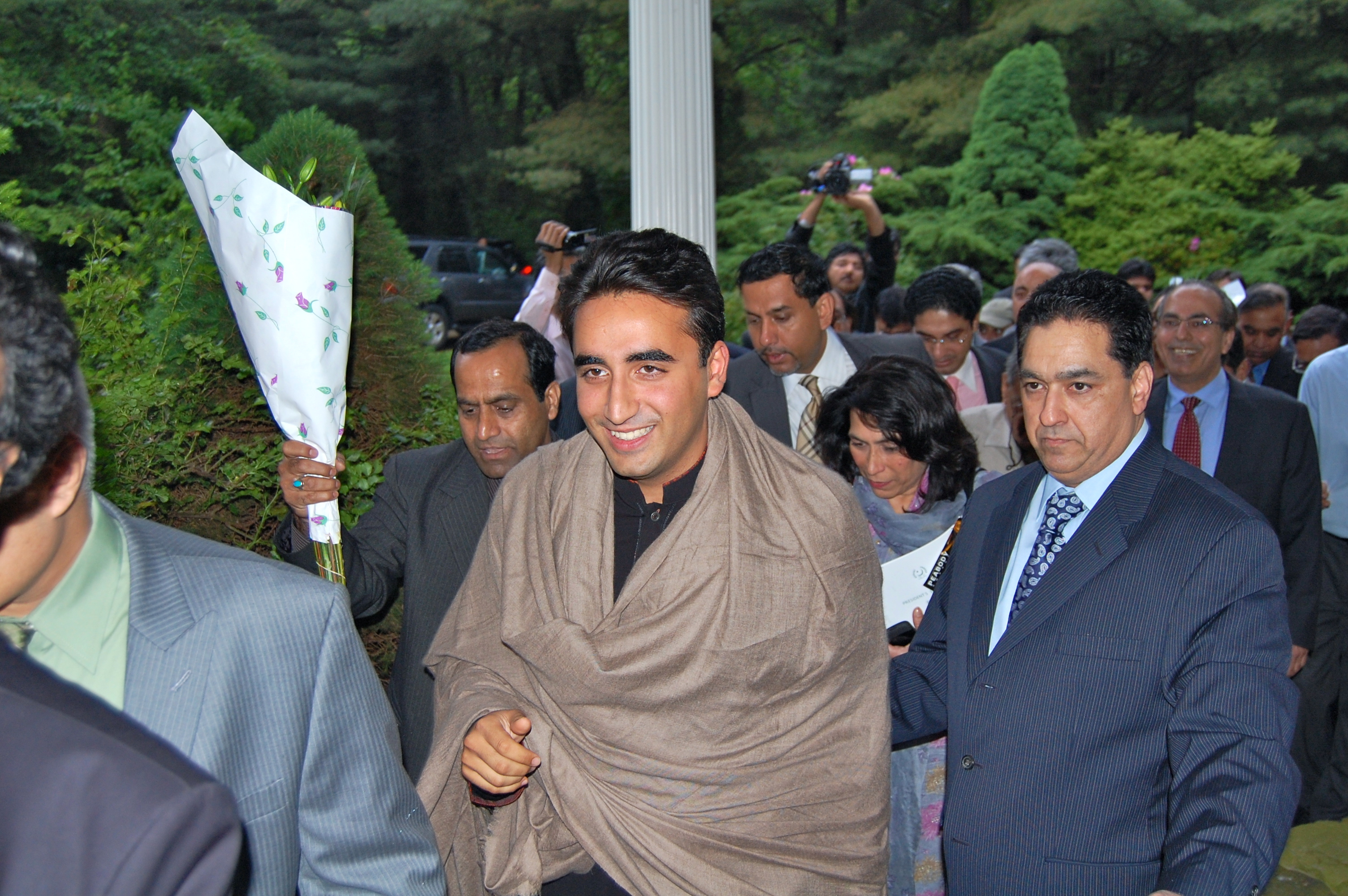 BBZ is all smiles as he stages an impromptu appearance at a local Pakistan People's Party meeting in Old Westbury, NY